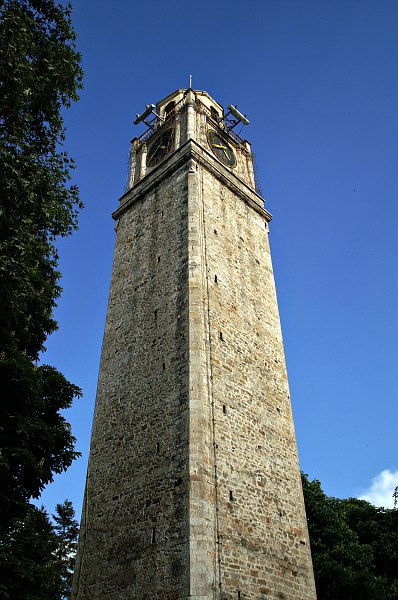 Clock Tower, Bitola